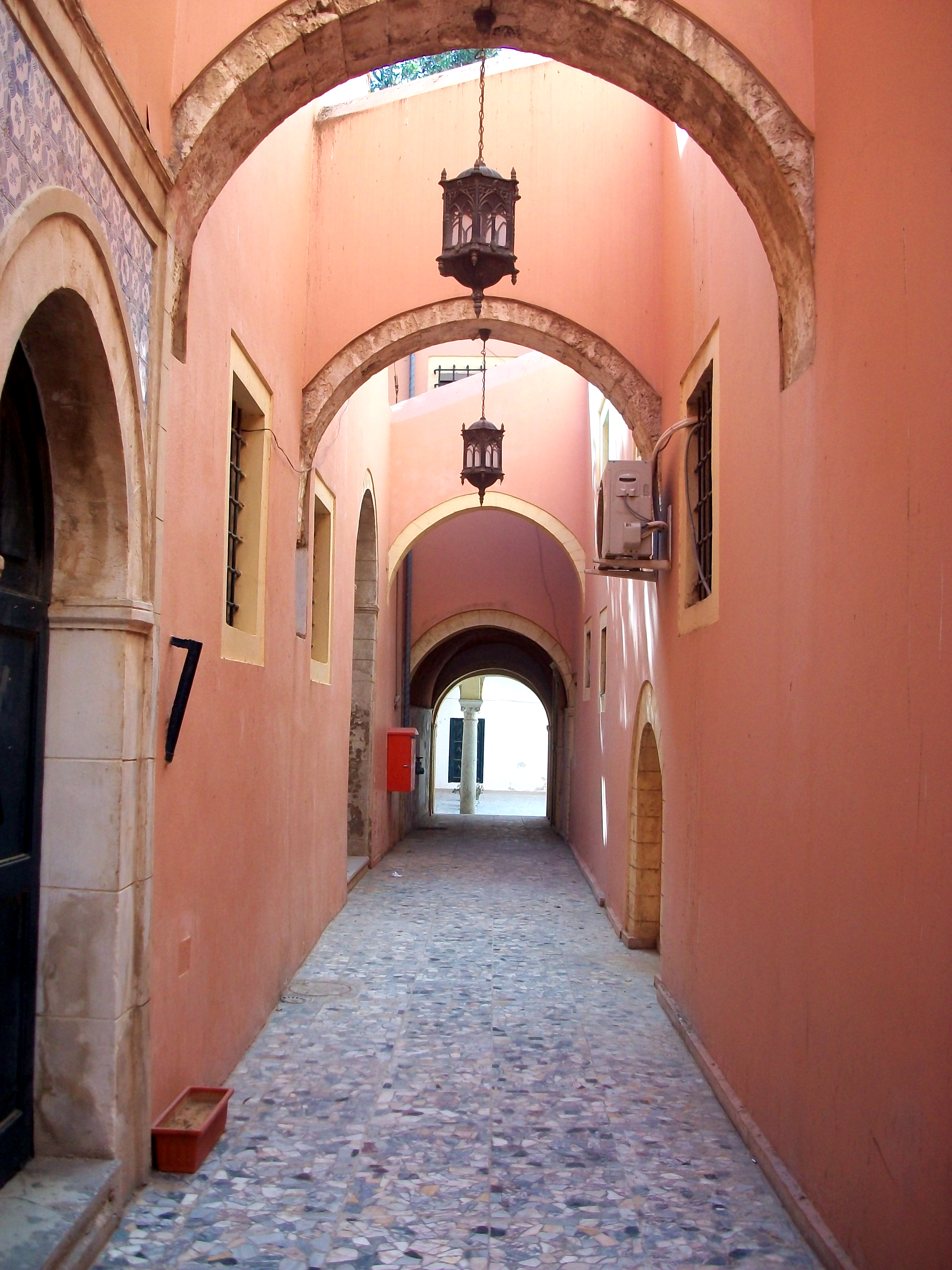 Interior of Tripoli Castle in Libya.